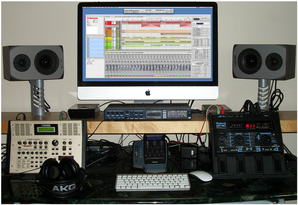 After the may 8th 2006 fire (see 2006 recording equipment photo) that destroyed just about everything I owned,This photo is of my most resent recording equipment. My recording / composing equipment begins with Motu's Traveler AD/DA interface (the device right under the iMac on shelf) that connects to my iMac Quad core computer running Motu's Digital Performer DAW (digital audio workstation) software. I control the Rec / Mix / Edit & Mastering functions with Frontier Design's Alpha Track DAW controller (the device right behind the keyboard) and a little help from the keyboard & mouse. I monitor the Rec / Mix / Edit & Mastering with a pair of inexpensive Tascam VL-A4 self powered monitors, AKG's K-240 MKII headphones and of course; imacs built in speakers for comparison. I have two external drives, one is used as the imacs backup and the other drive is used as dedicated storage for Motu's Digital performer music song files and also a backup for my iTunes library files, so essentially I all of my music stored in triplicate. For me there's nothing worse than the irretrievable loss of personally composed & recorded music (since i'm musically illiterate and It's very hard for me to recreate that magic once again), For me It's like the loss of a loved one. The other equipment seen on my desk is a Boss GS10 Guitar effects system and a Roland GR-30 Guitar synth. other equipment can also be seen in in my other photo : (GUITAR EQUIPMENT RIG ENSEMBLE)